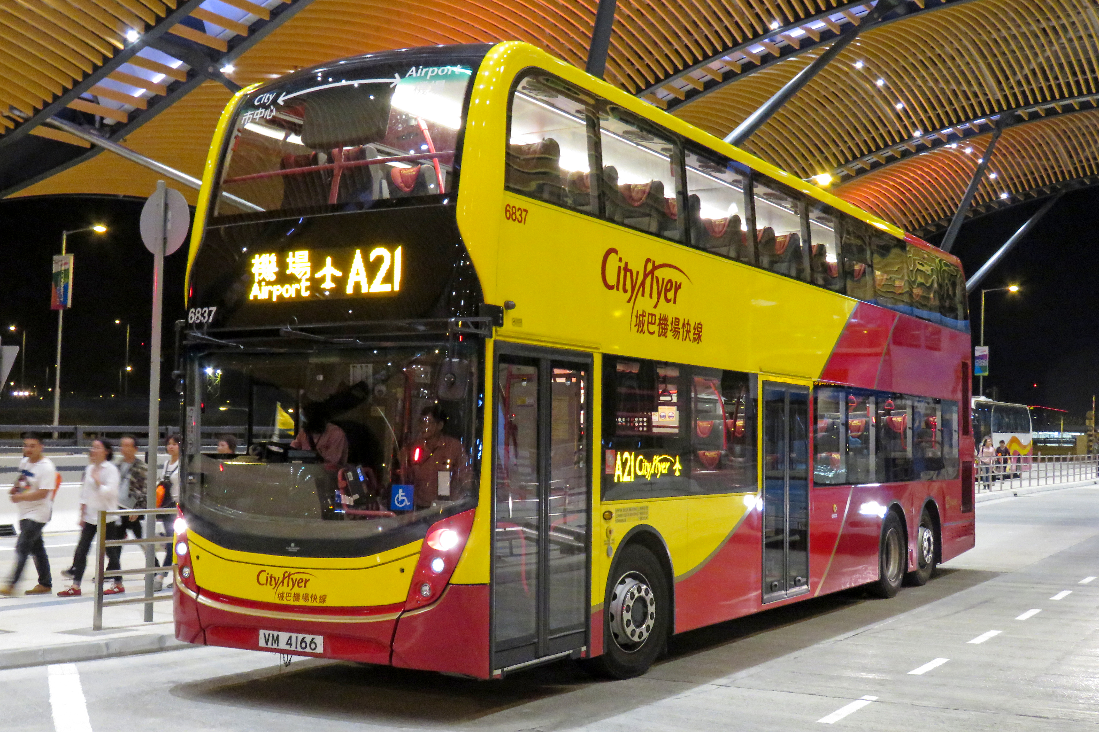 And even received a smile...